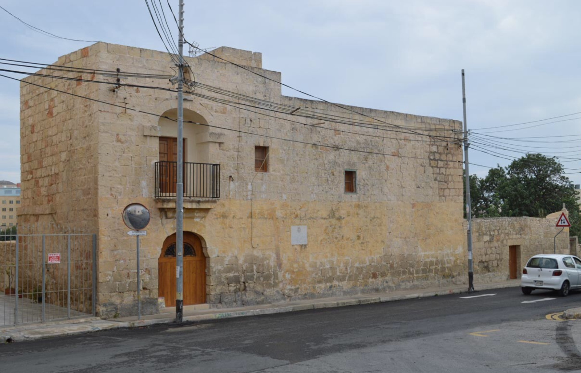 Ta' Xindi Farmhouse This media is about Maltese cultural property with inventory number 01222.